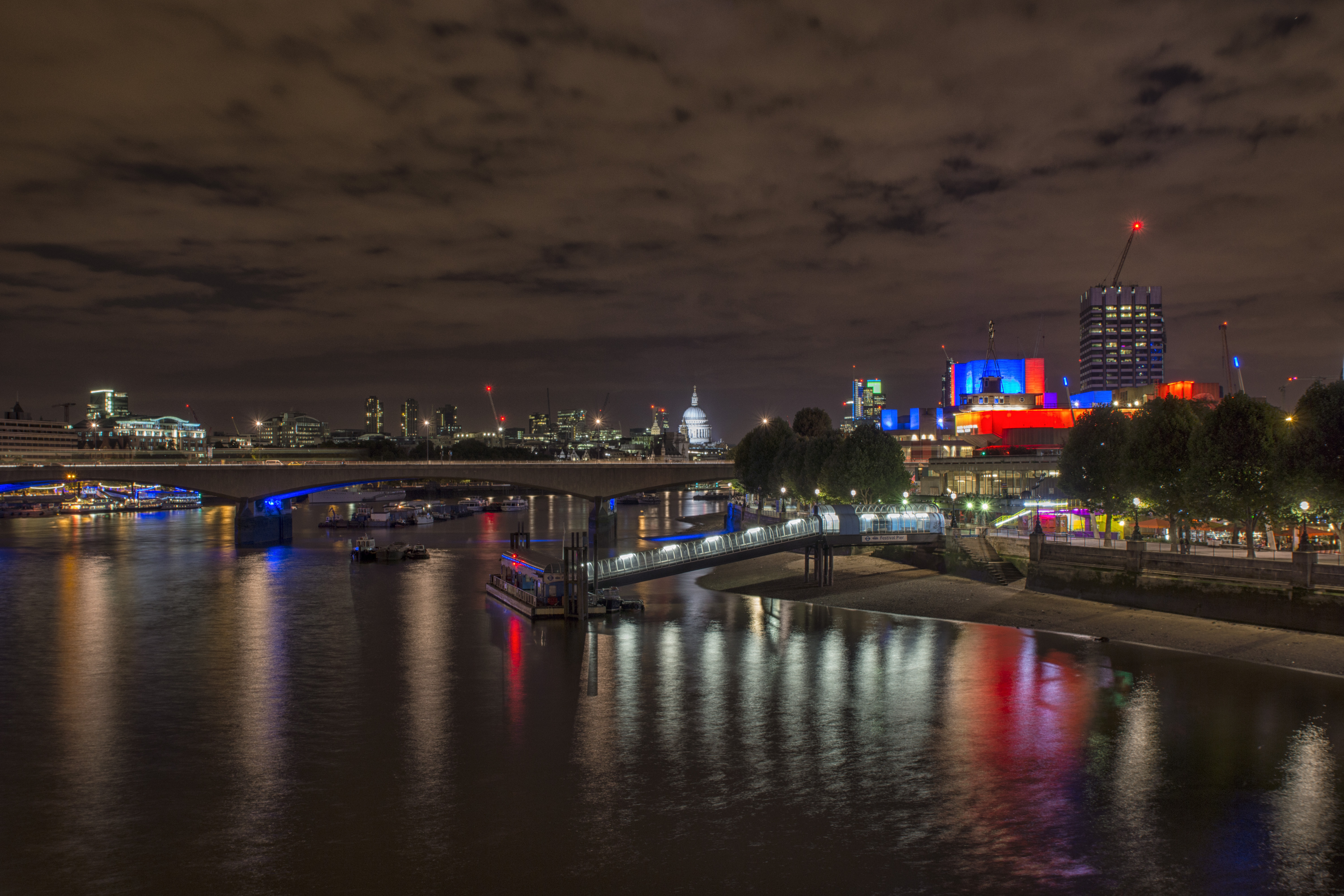 London at Night